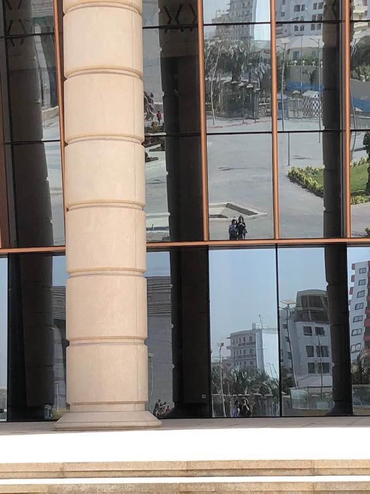 Entrance of the black civilizations Dakar